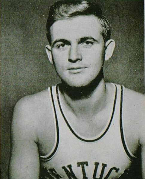 University of Kentucky basketball player Jim Line from the 1948 "Kentuckian" yearbook